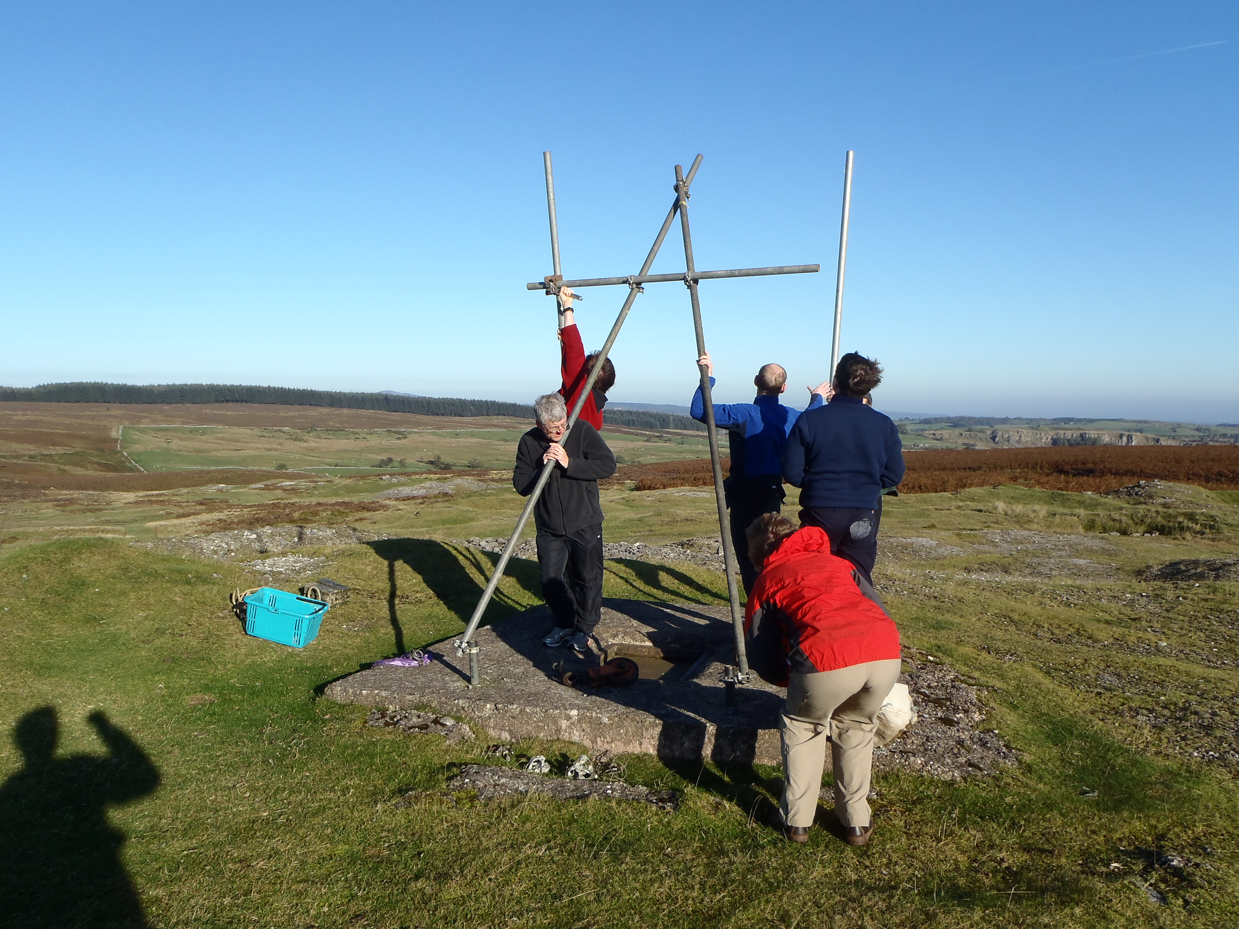 Near Minera